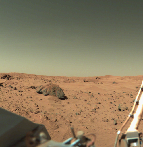 This picture was taken by the Viking Lander 1 on February 11, 1978 on Sol 556. The large rock just left of the center is about two meters wide. This rock was named "Big Joe" by the Viking scientists. The top of the rock is covered with red soil. Those portions of the rock not covered are similar in color to basaltic rocks on Earth. Therefore, this may be a fragment of a lava flow that was ejected by an impact crater. The part of the Lander that is visible in the lower left is the cover of the nuclear power supply.